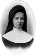 Adela Mardosewicz